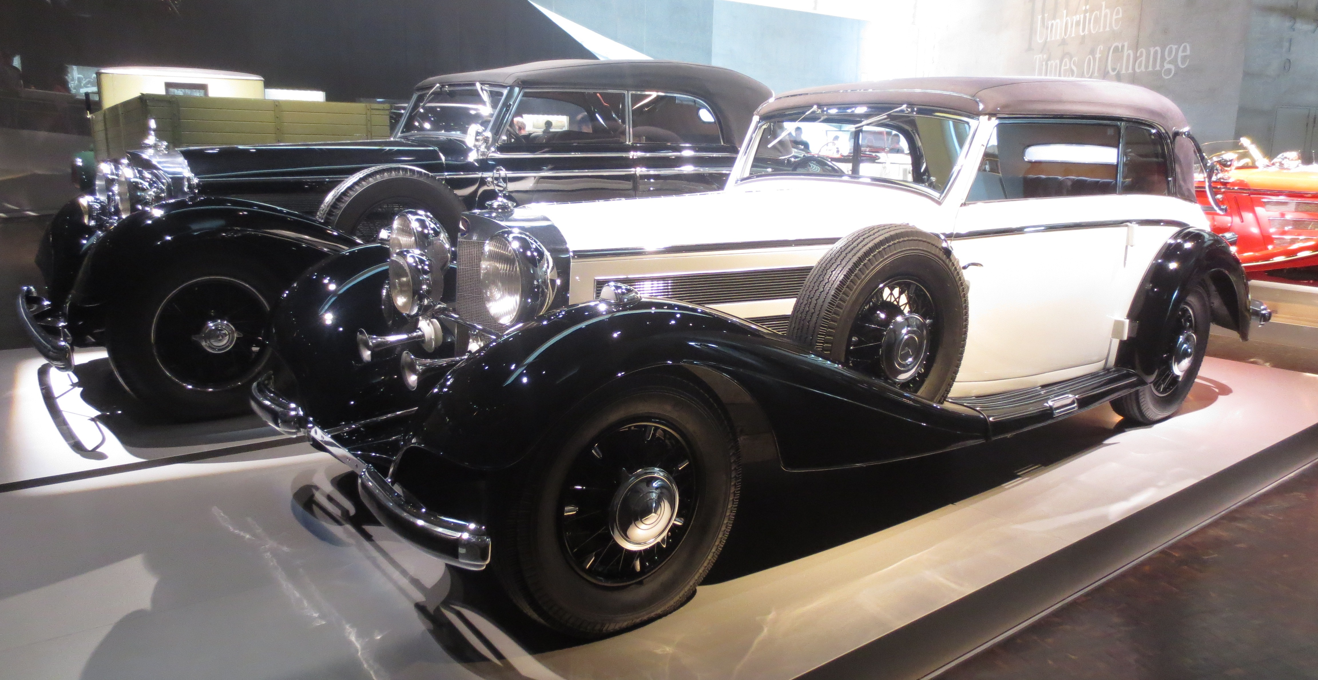 1937 model Mercedes-Benz, displayed in the M-B Museum in Stuttgart, germany